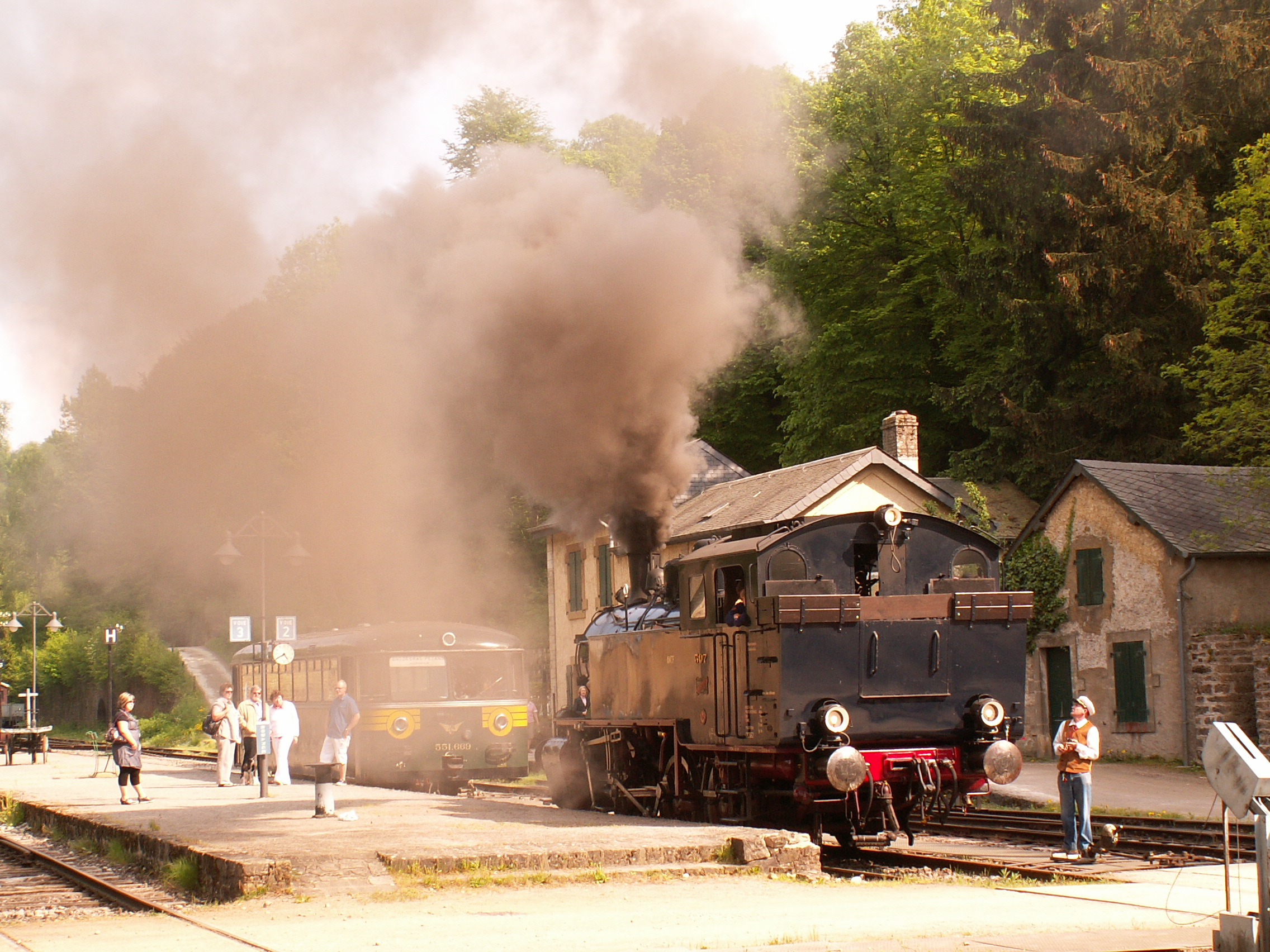 Steam locomotive 507 (typ Kriegslok KDL-7, buildt by Energie in Marcinelle - Belgium) and railcar 551.669 (former german VT 95) painted in (fancy) belgian color scheme at Fond-de-Gras station (Luxemburgisch heritage railway Train 1900.